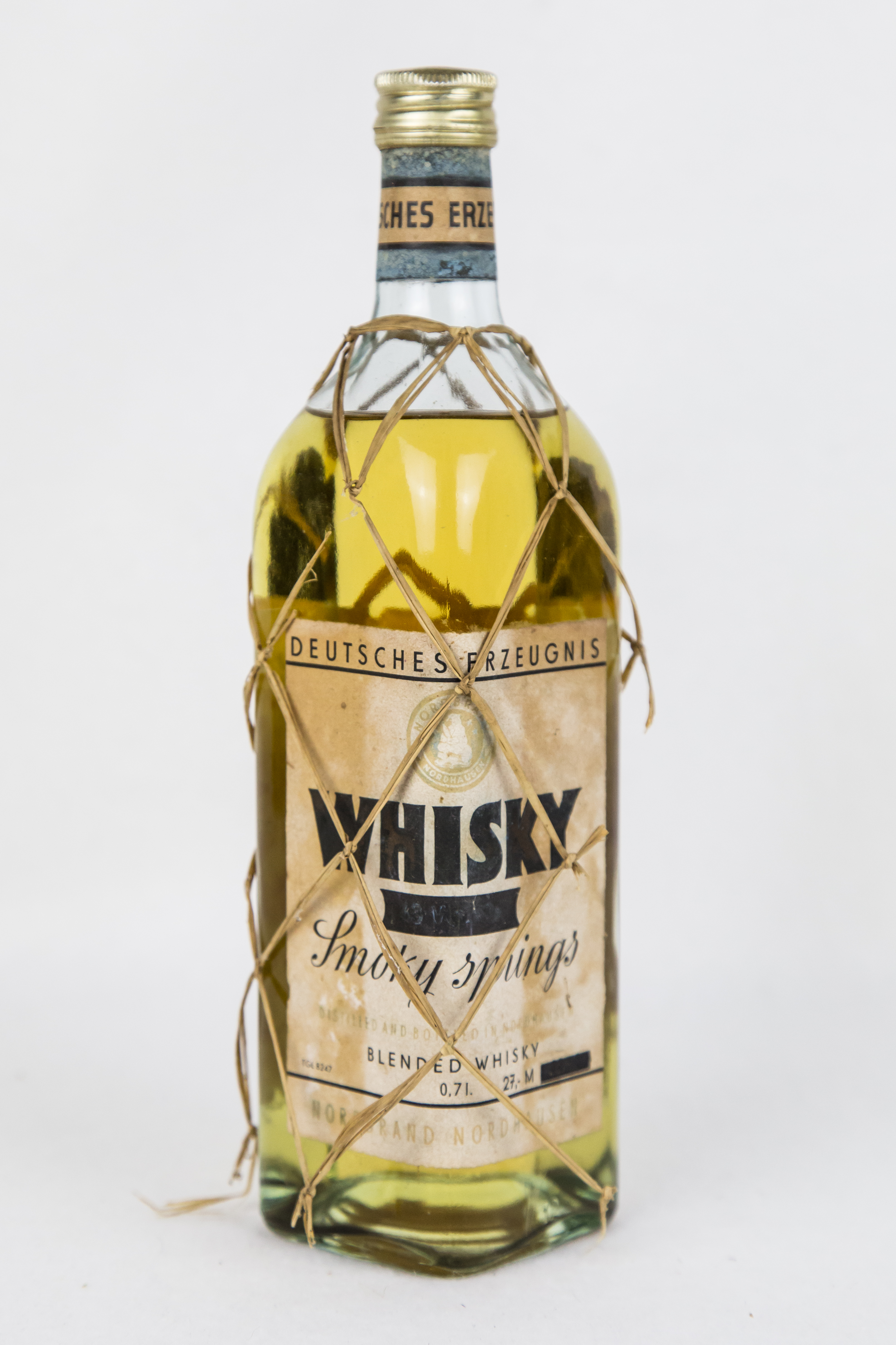 Oktober 2019 Canon EOS 6D EF 24-105mm f/4L IS USM Creative Commons Licence BY 2.0 Quellenangabe / Credit: Maja Dumat - Creative Commons Licence BY 2.0